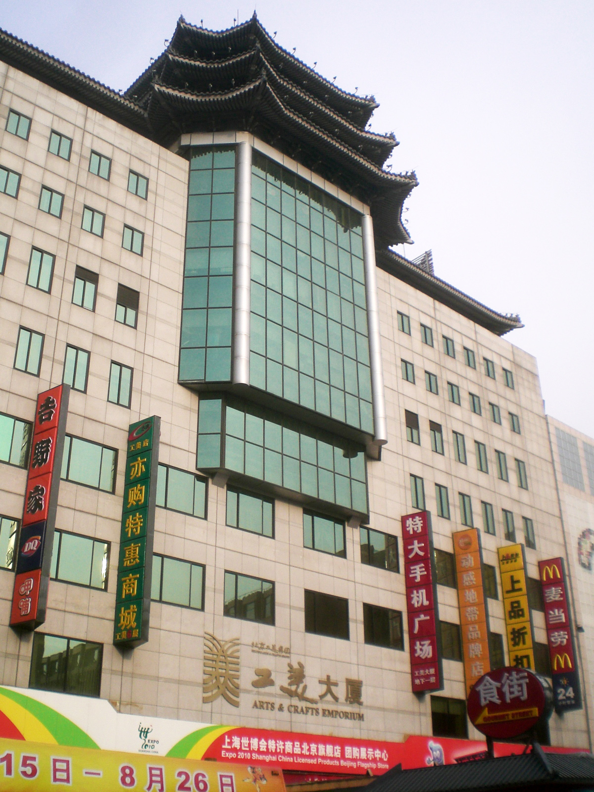 北京市東城區王府井王府井大街 北京工美大廈